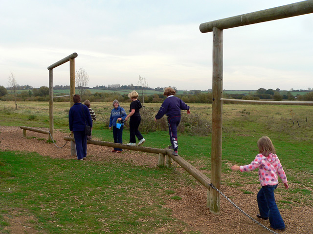 Balance Beam The last element of the Stanwick Lakes Assault course is the balance beam, just when you are tired.